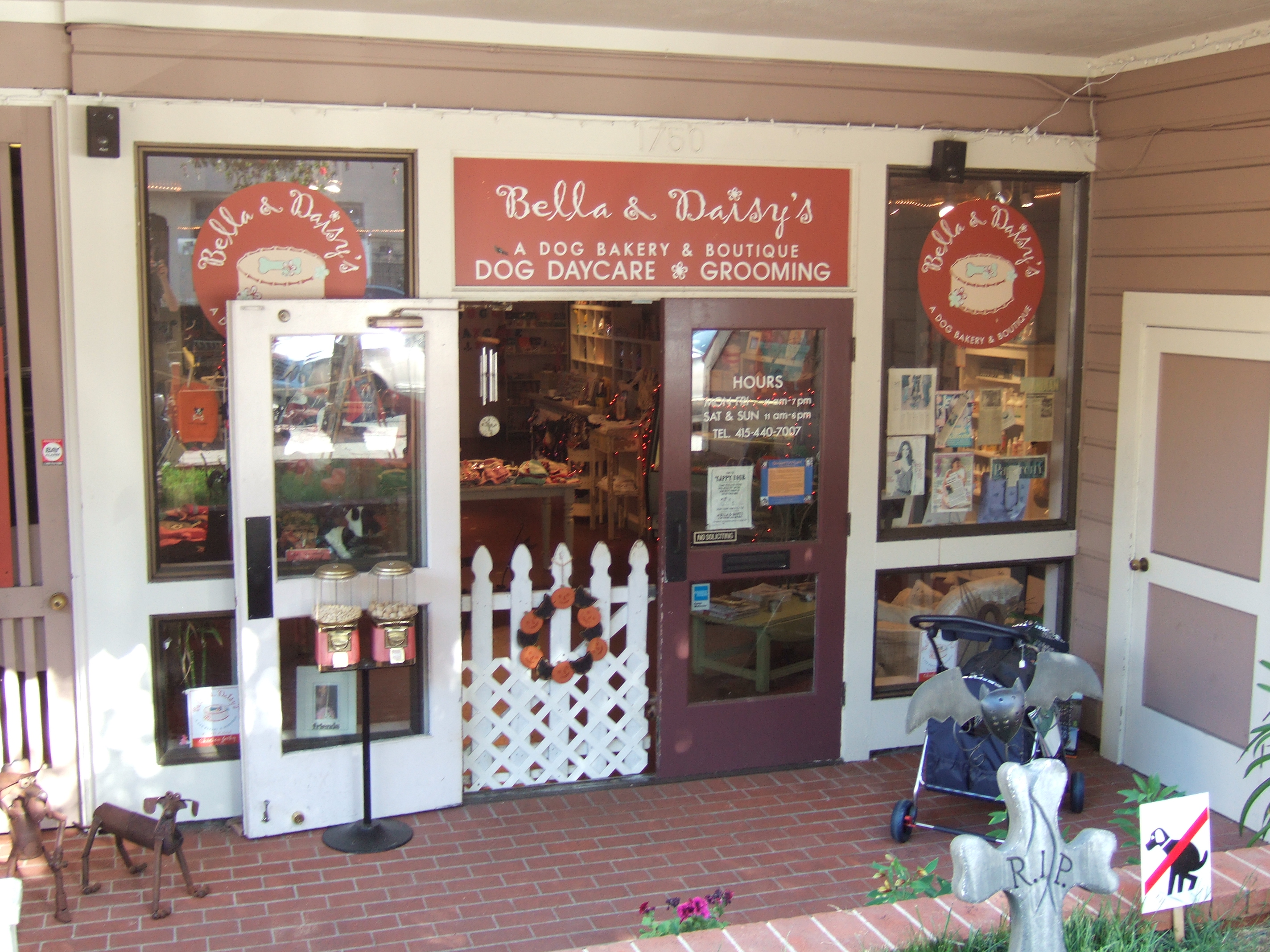 Bella & Daisy’s Dog Bakery, Boutique, Daycare, and Grooming 1750 Union Street, between Octavia & Gough San Francisco, CA 94123